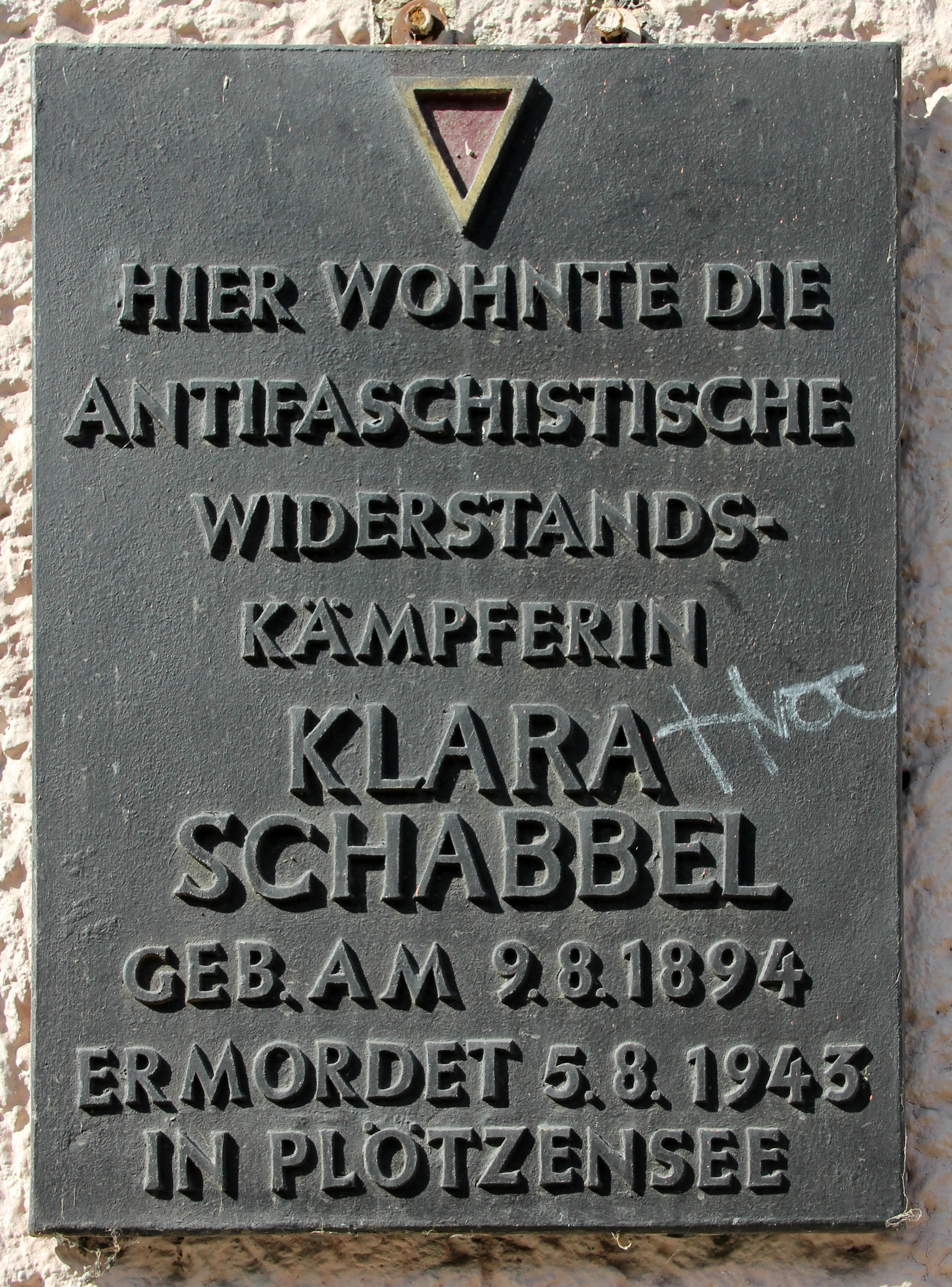 Memorial plaque, Klara Schabbel, Conrad-Blenkle-Straße 63, Berlin-Prenzlauer Berg, Germany Koordinate:52°31′42″N 13°26′58″E / 52.52833°N 13.44944°E